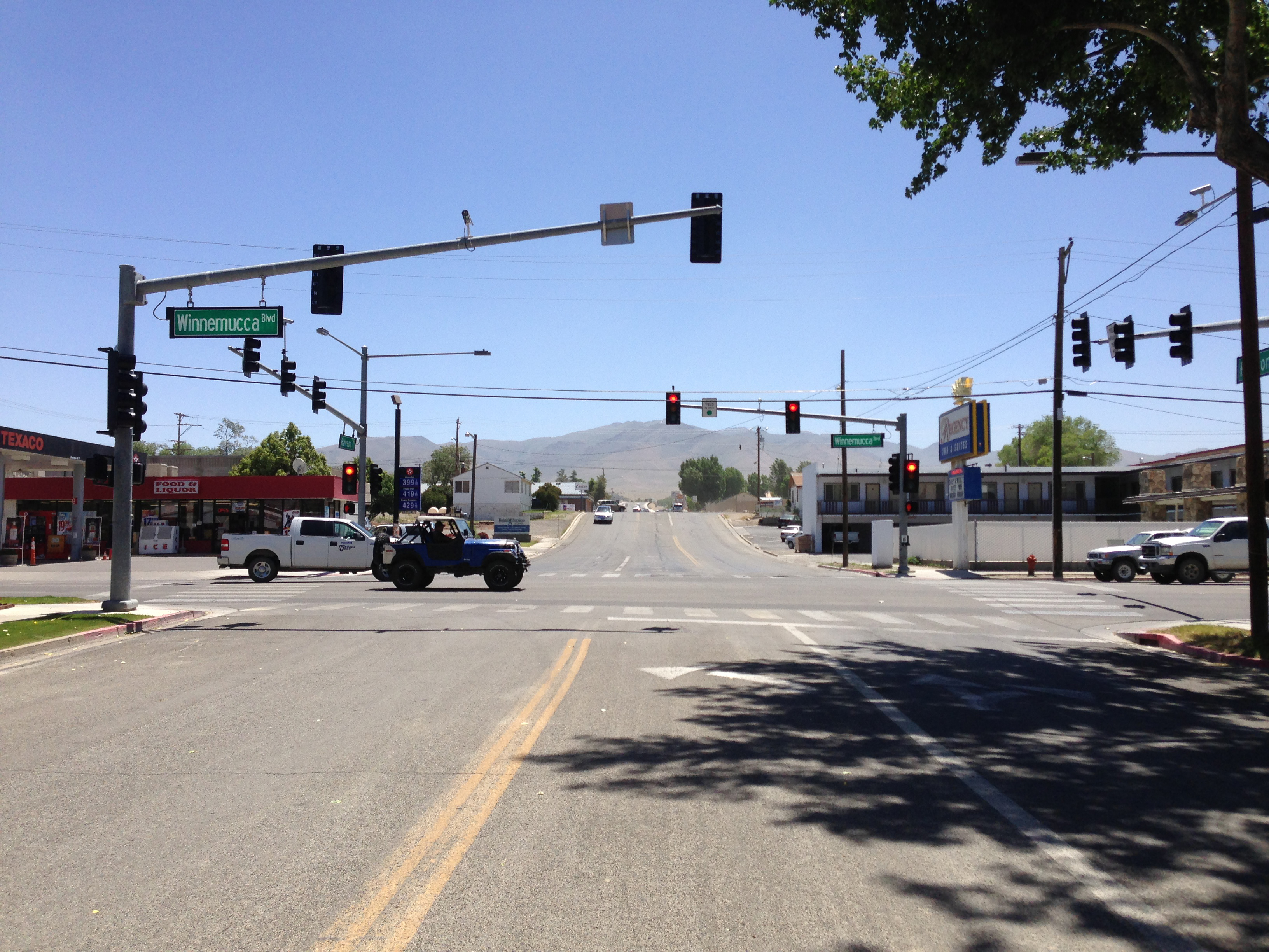 View east from the western terminus of Nevada State Route 787 (Hanson Street) at U.S. Route 95 (West Winnemucca Boulevard) in Winnemucca, Nevada